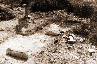 Colom island old religious building.